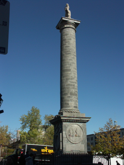 Nelson Column in Old Montreal. Photo by: User:gene.arboit